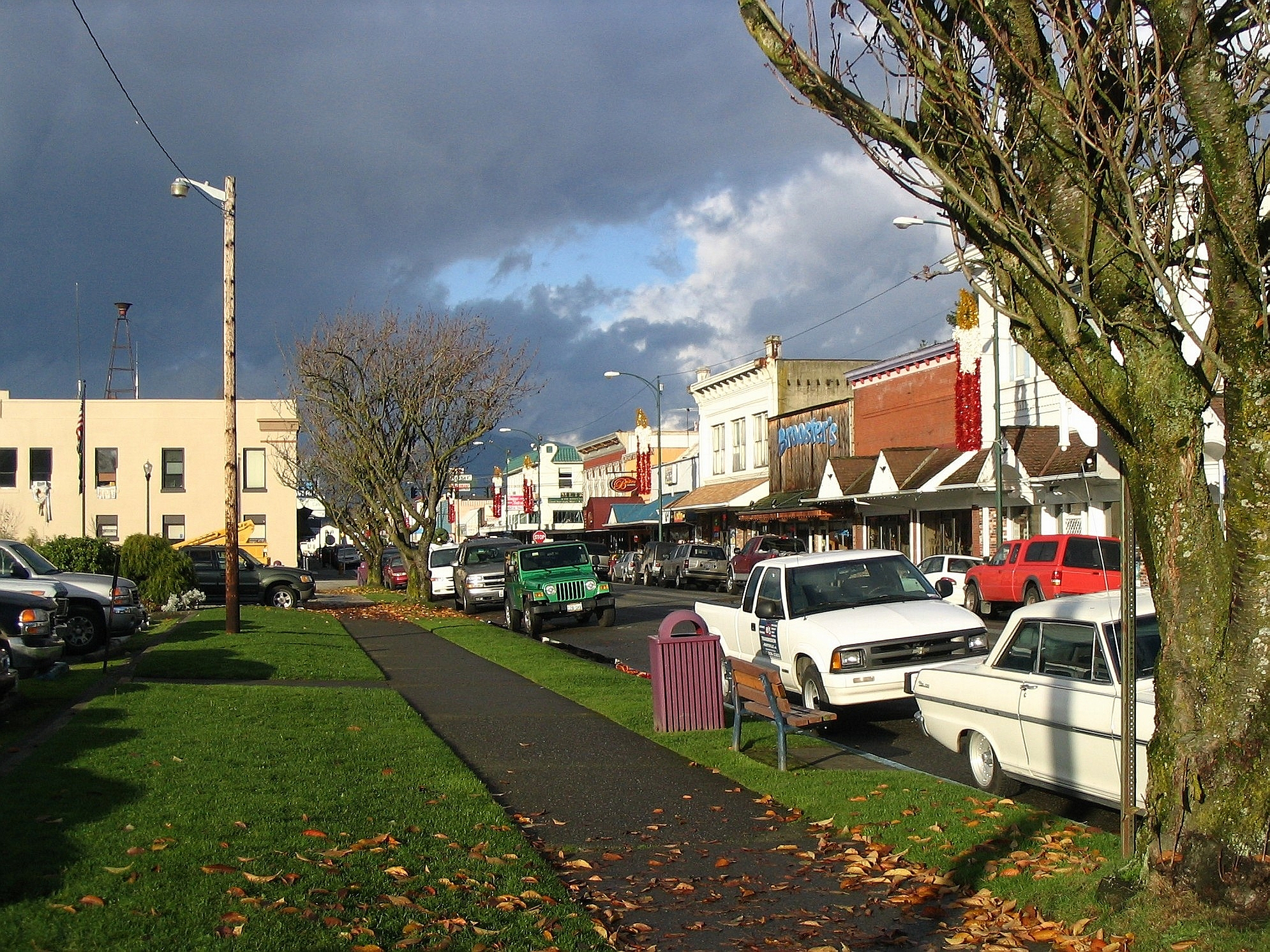 Downtown Arlington, Washington.